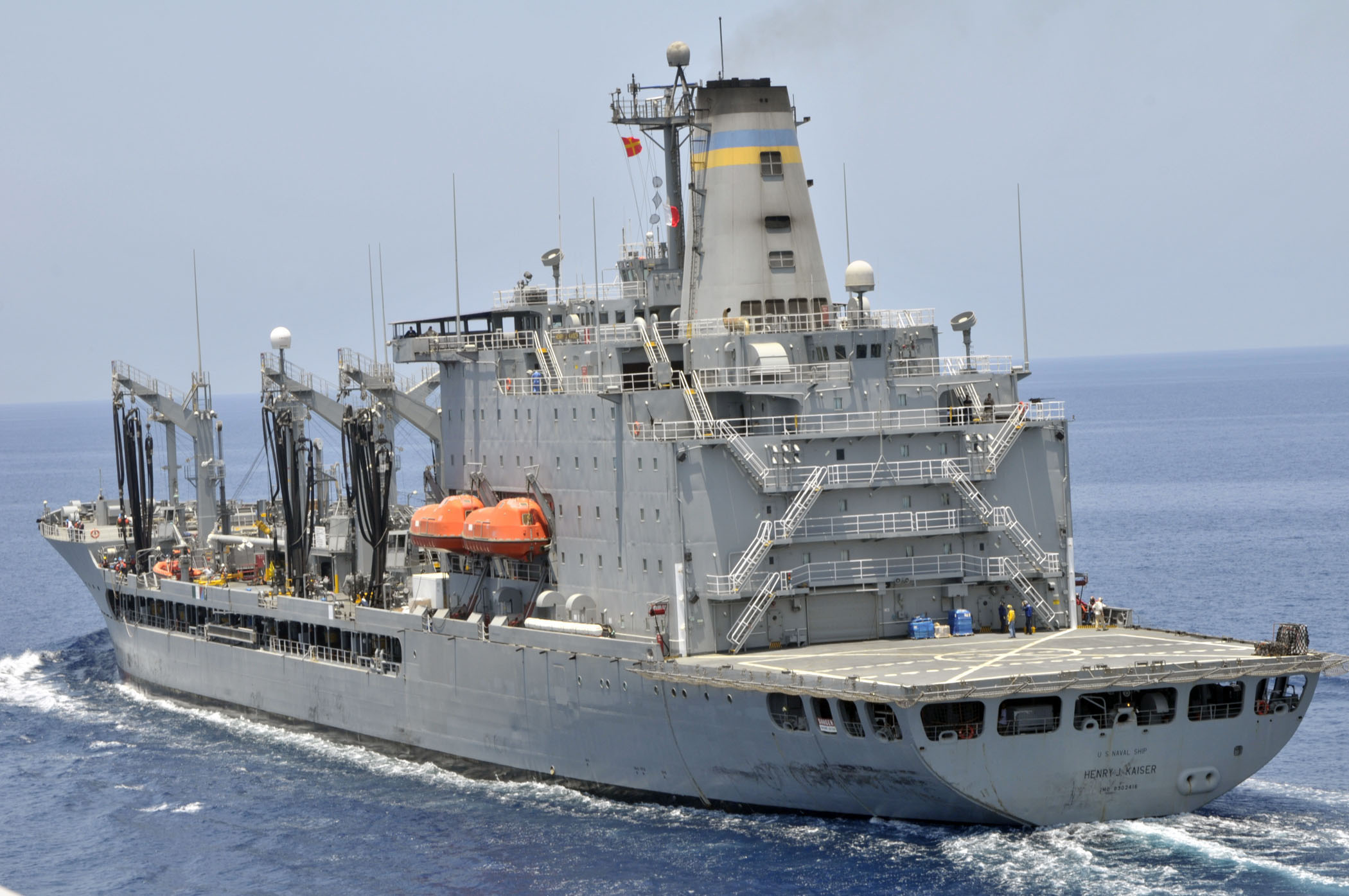 GULF OF ADEN (April 19, 2011) The Military Sealift Command fleet replenishment oiler USNS Henry J. Kaiser (T-AO 187) transits the Gulf of Aden. (U.S. Navy photo by Mass Communication Specialist 3rd Class Stephen M. Votaw/Released)